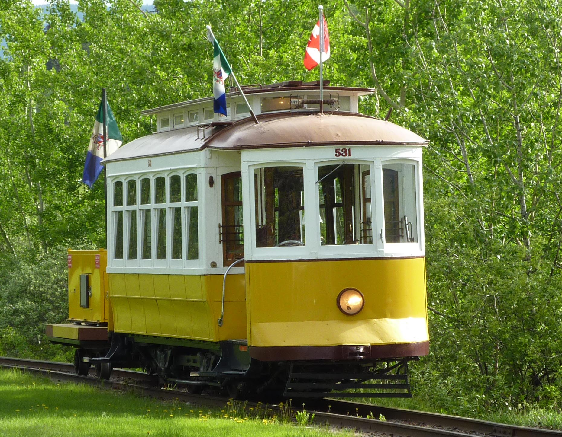 Trolley in Whitehorse, Yukon, Canada